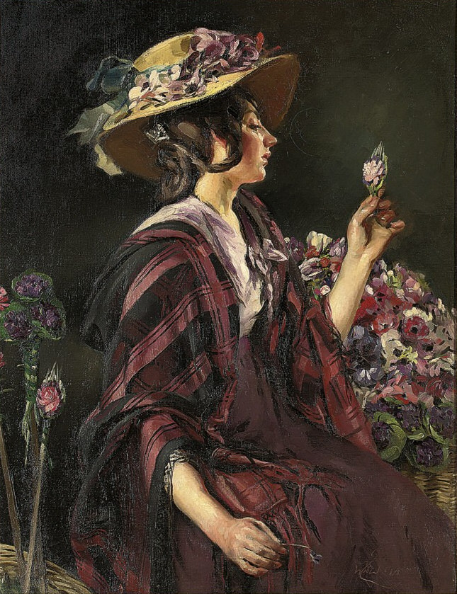 Portrait of the character Eliza Doolittle from Shaw's play Pygmalion; signed with initials and dated WBER 1914. Oil on canvas, 112.4 x 87.1 cm